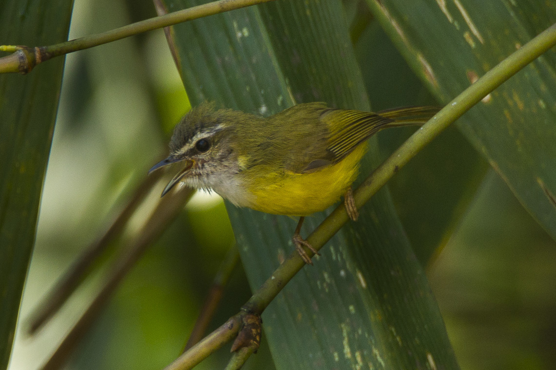 Yellow-bellied Warbler - Bhutan_S4E1091